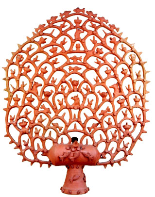 Botijo of Alba de Tormes. Museum of Salamanca